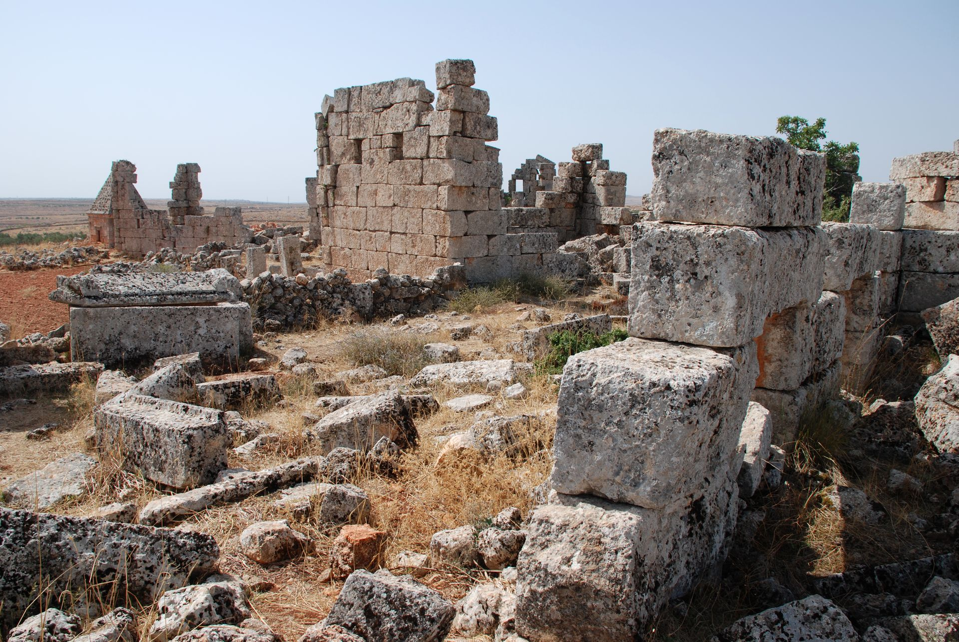 Bauda, dead city in Syria, near Serjilla